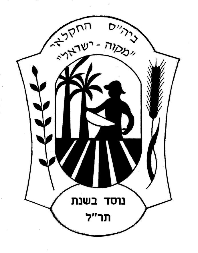 Emblem of Miqve Israel agriculture school